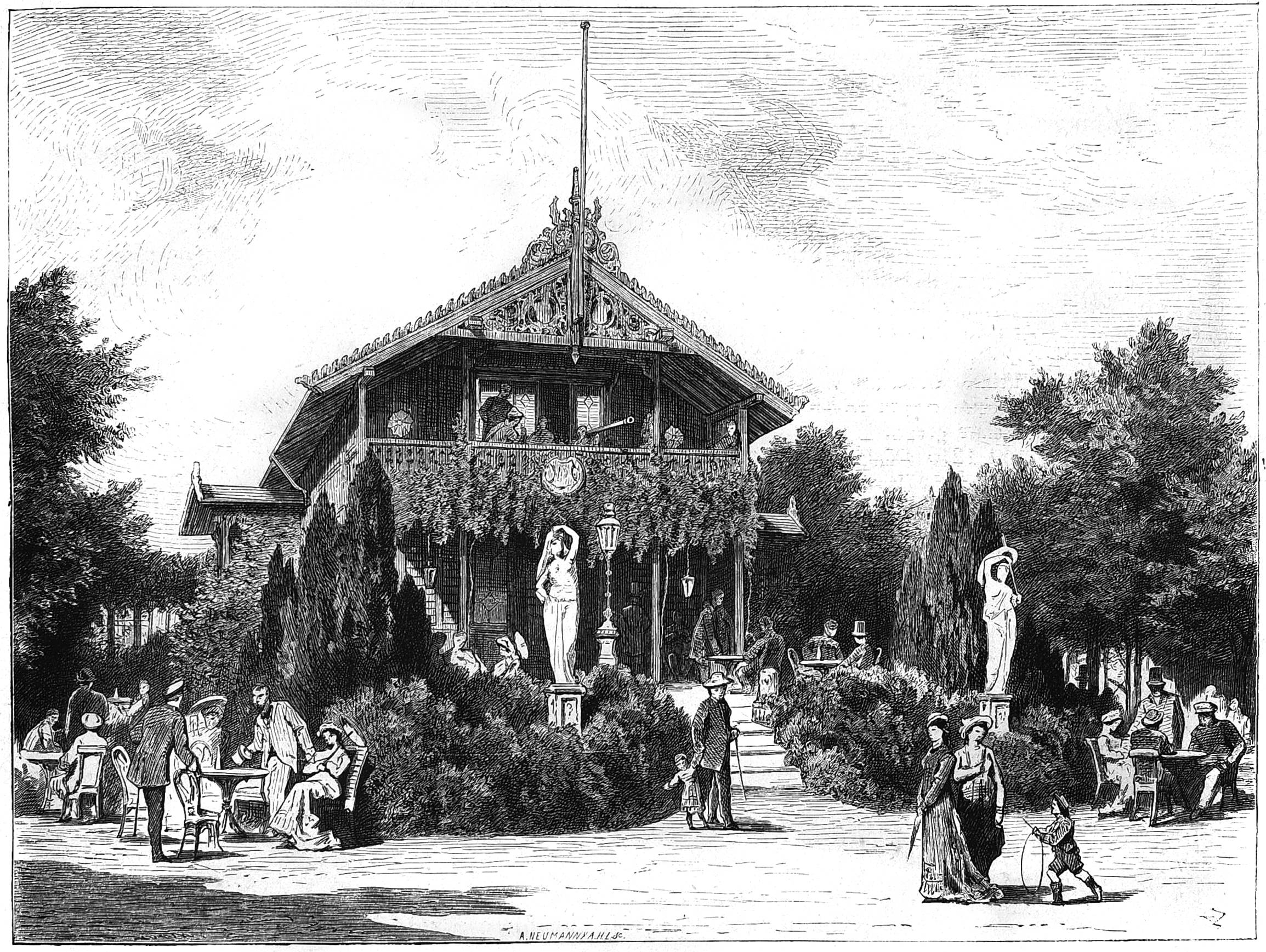 caption: "Die Trinkhalle in den Coblenzer Rheinanlagen. Nach der Natur gezeichnet von A. Zick."